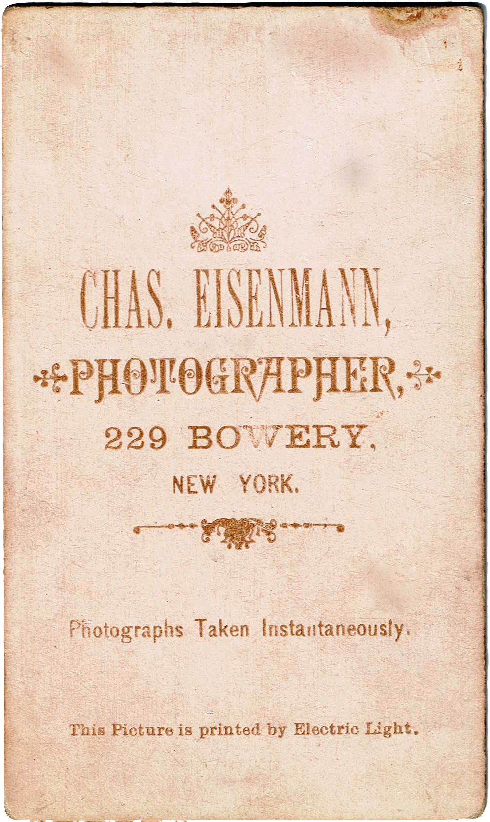 Charles Eisenmann cabinet card, verso. “Chas. Eisenmann, Photographer, 229 Bowery, New York. Photographs taken instantaneously. This Picture is printed by Electric Light.”